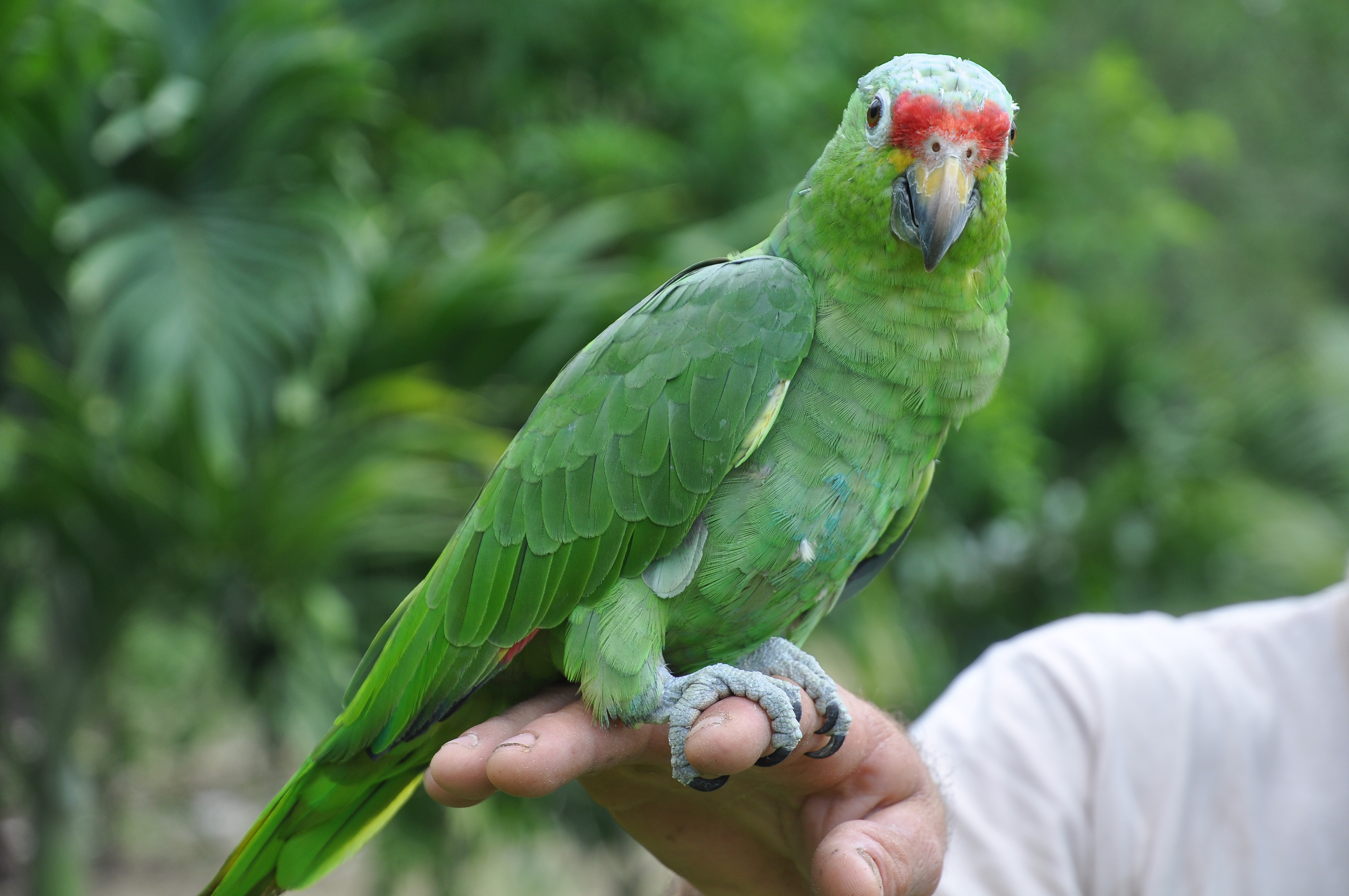 A Costa Rican coconut farmer showing his juvenile Red-lored Amazon to tourists as a bonus for tipping well.